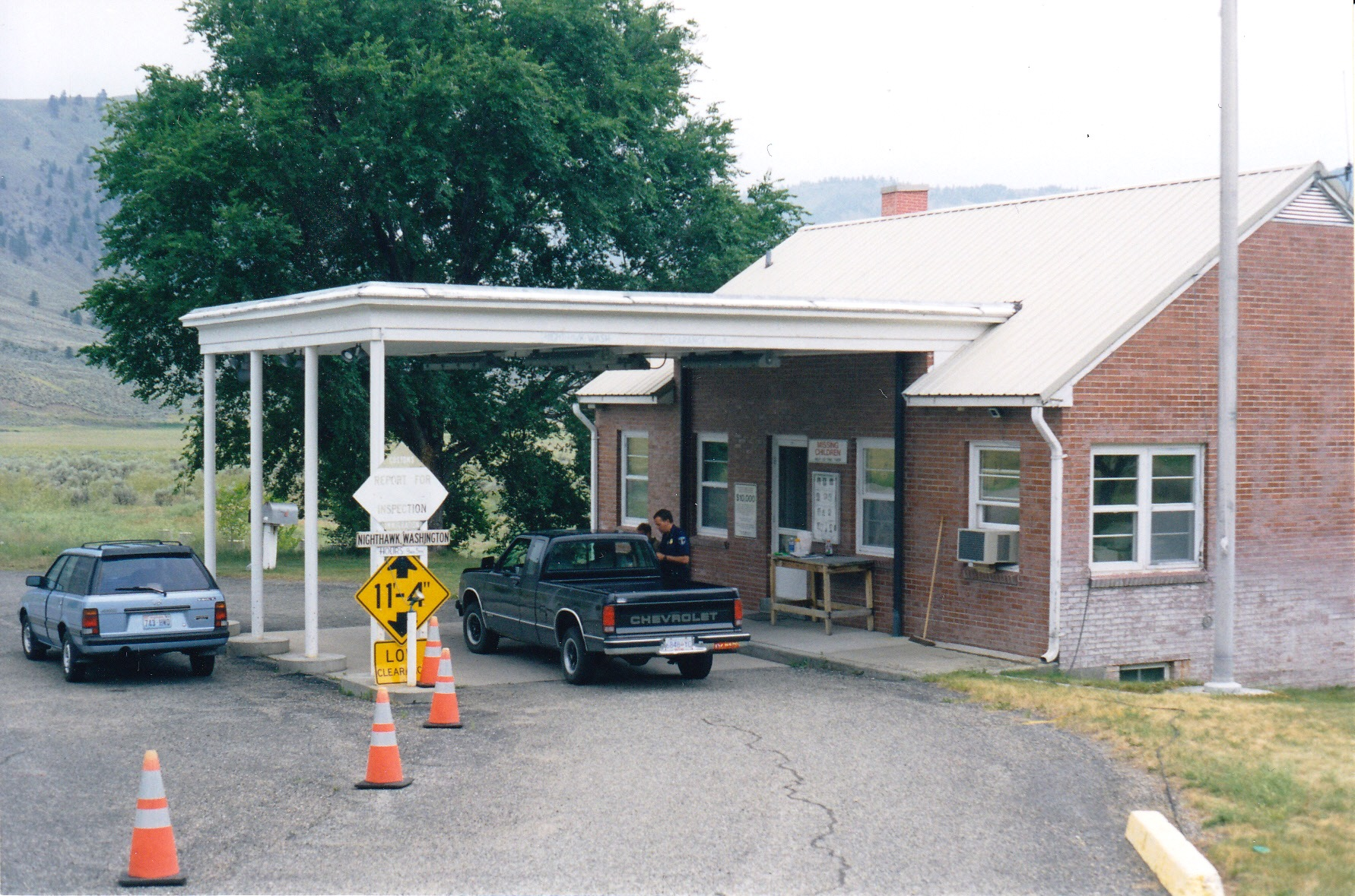 US Border Inspection Station at Nighthawk, WA as seen in 1997